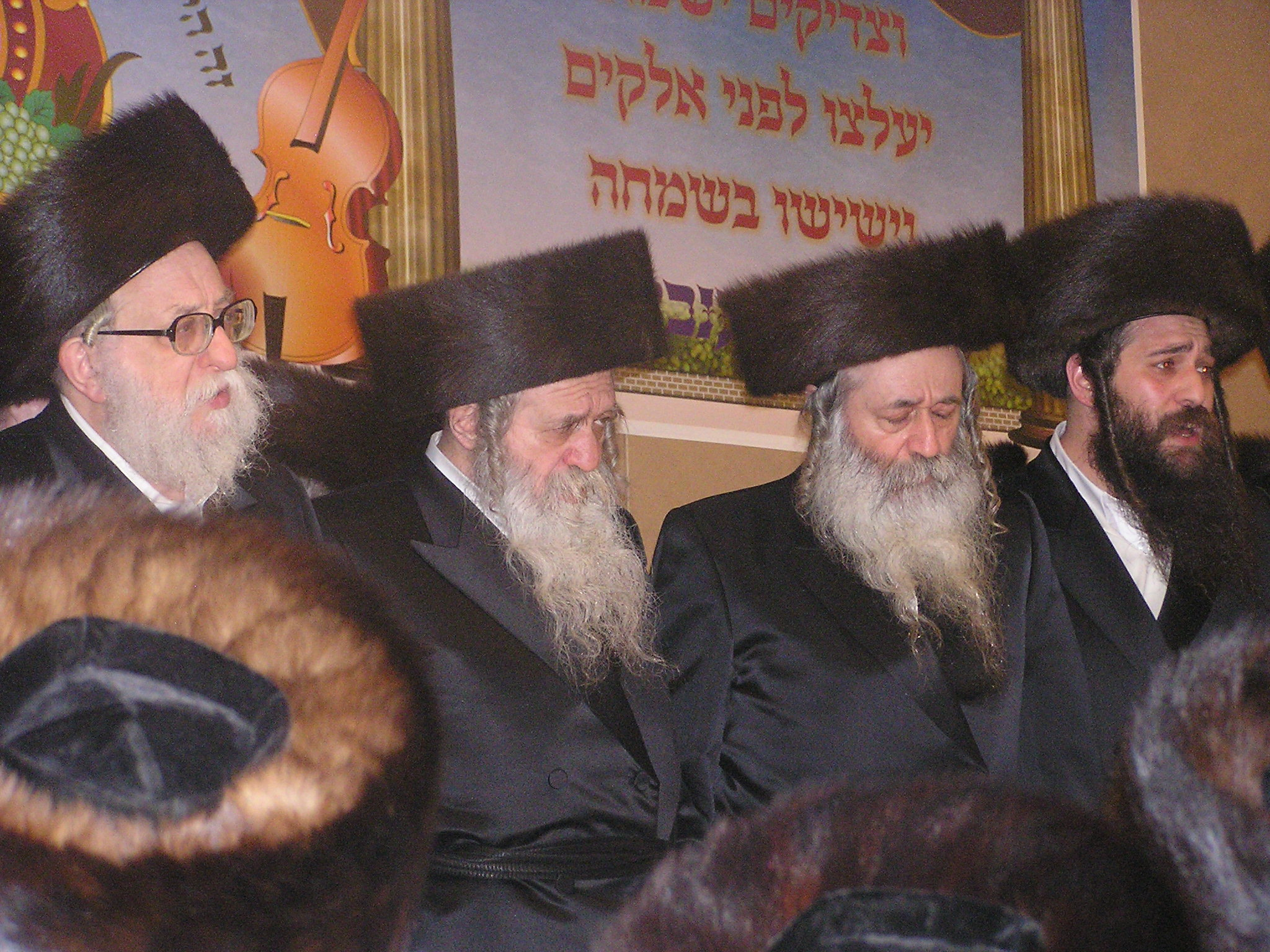 (l-r) R'Chai Twersky of Rachmastrifk, NY. Chernobyler Rebbe of Bnei Brak. R' Yeshaya Twersky of Chernobyler, NY. R' Mordechai Twersky, son of R' Yeshaya Twersky. Uploaded from Image:Chernobil 39.JPG